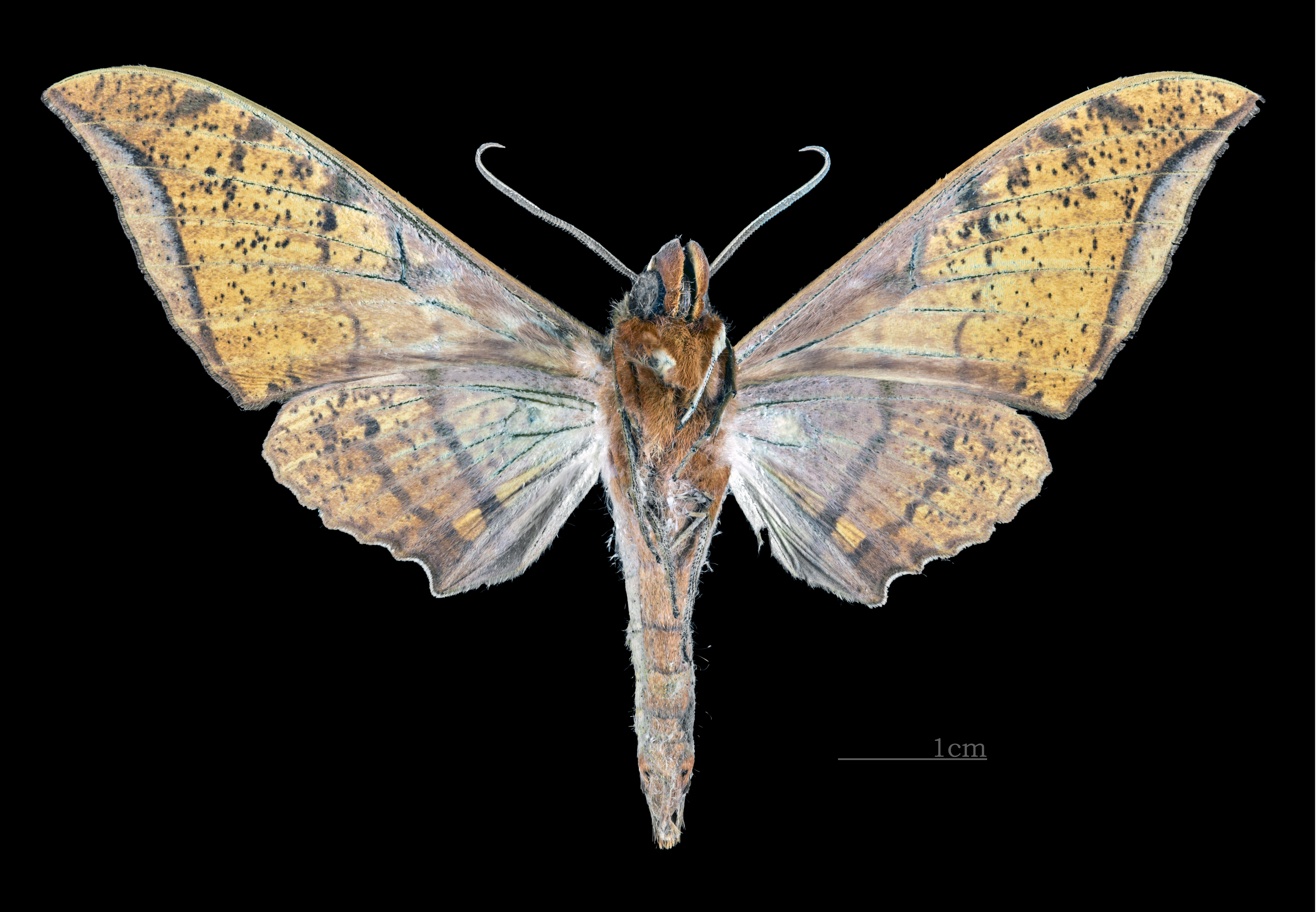 Ambulyx johnsoni - △ Ventral side Collection of the Mathematician Laurent Schwartz